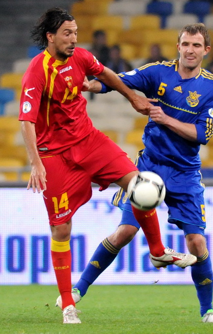 Montenegrin football player Dejan Damjanović during 2014 World Cup qualifier against Ukraine